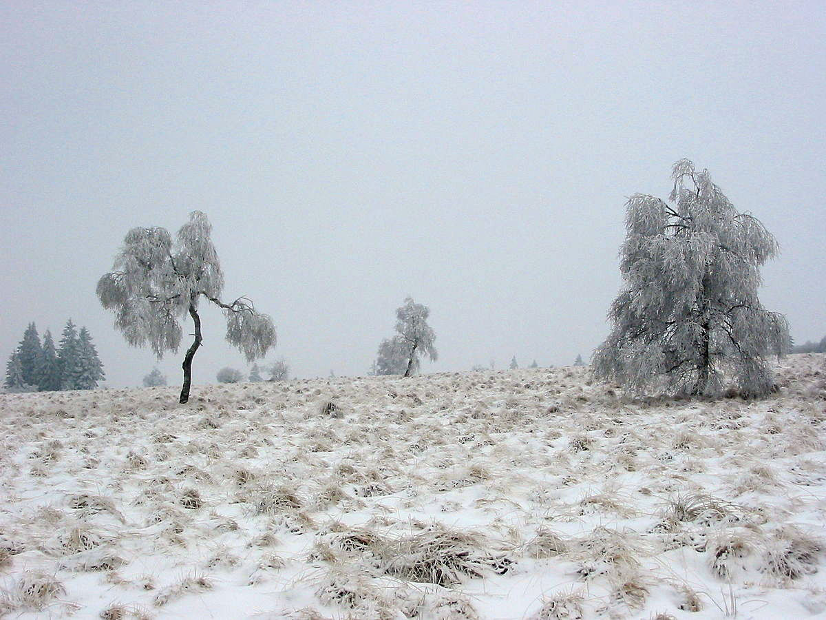 High Fens — winter in gray (Belgium).